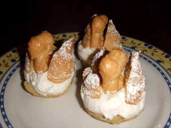 Choux pastry, or pâte à choux, is a light pastry dough used to make profiteroles, croquembouches, eclairs, French crullers, beignets, Indonesian kue sus, and gougères. It contains only butter, water, flour, and eggs.